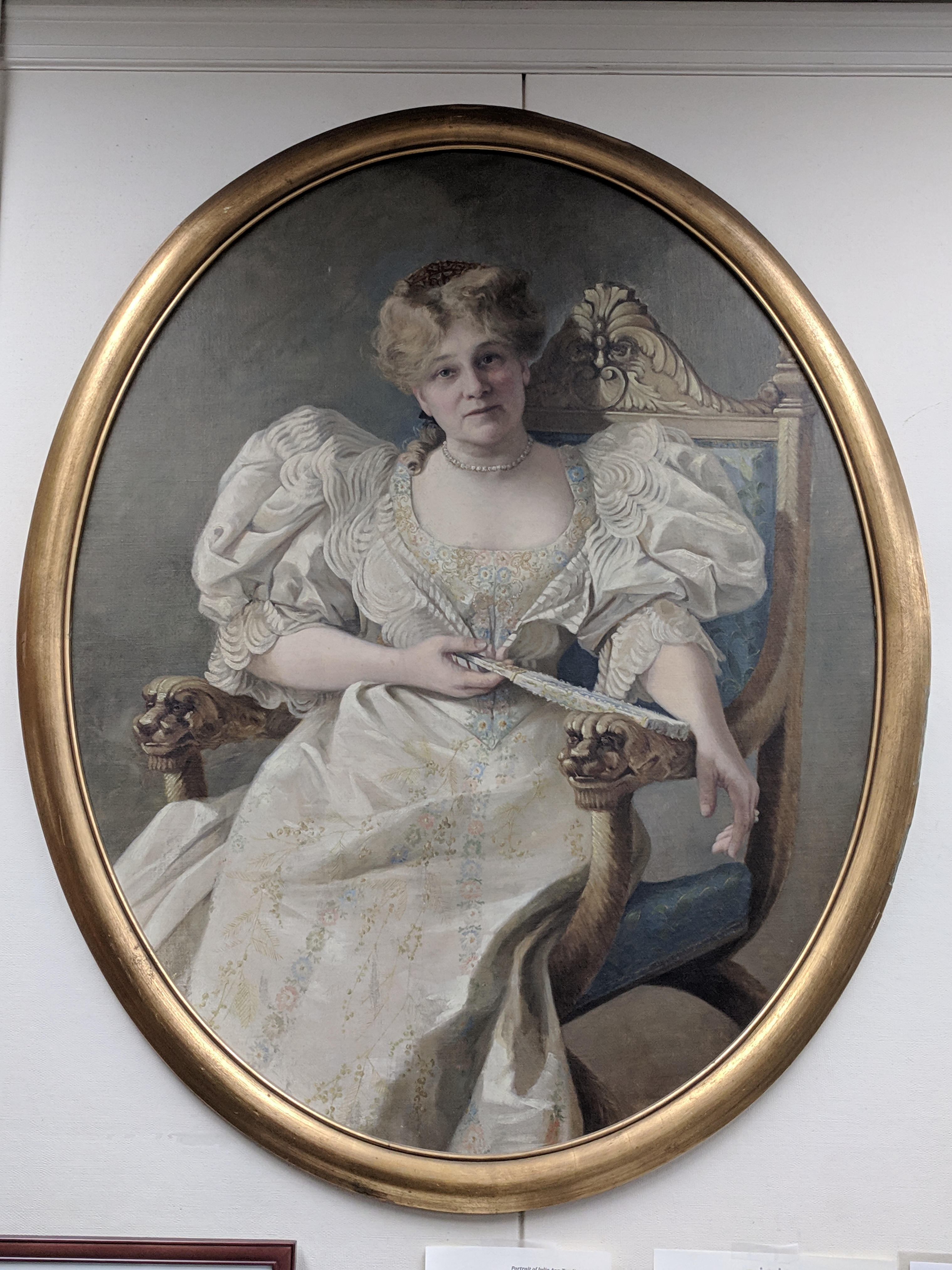 Portrait of Julia Ann Tomlinson (Mrs. William D. Bishop) hanging in the local history department of the Bridgeport Public Library in Bridgeport, Connecticut